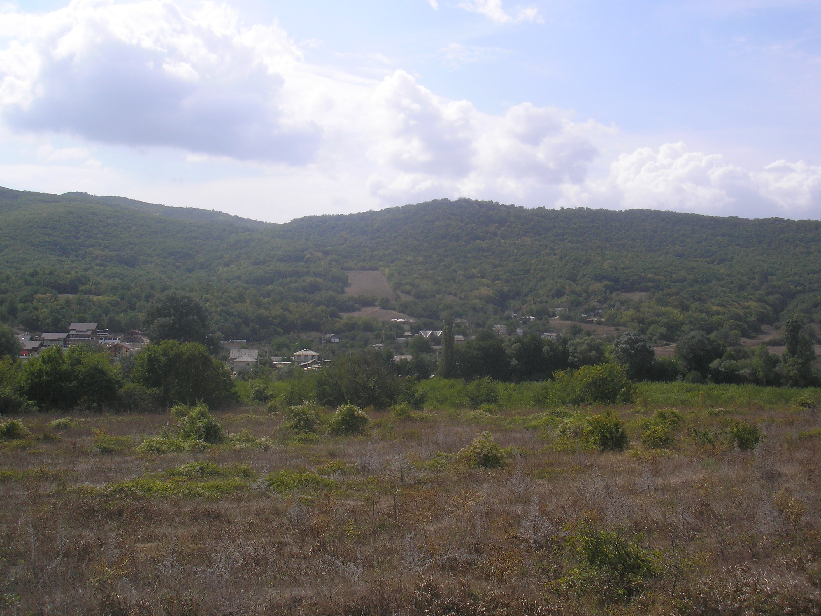 Village Verhnee Zarechye (now Nijnyaya Golubinka), Bakhchisaray Raion.